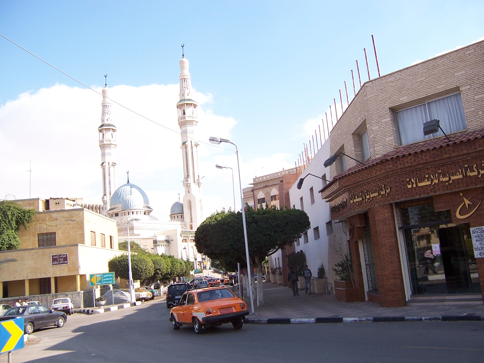 Photos from winter Egypt trip 2007 Jan-Feb